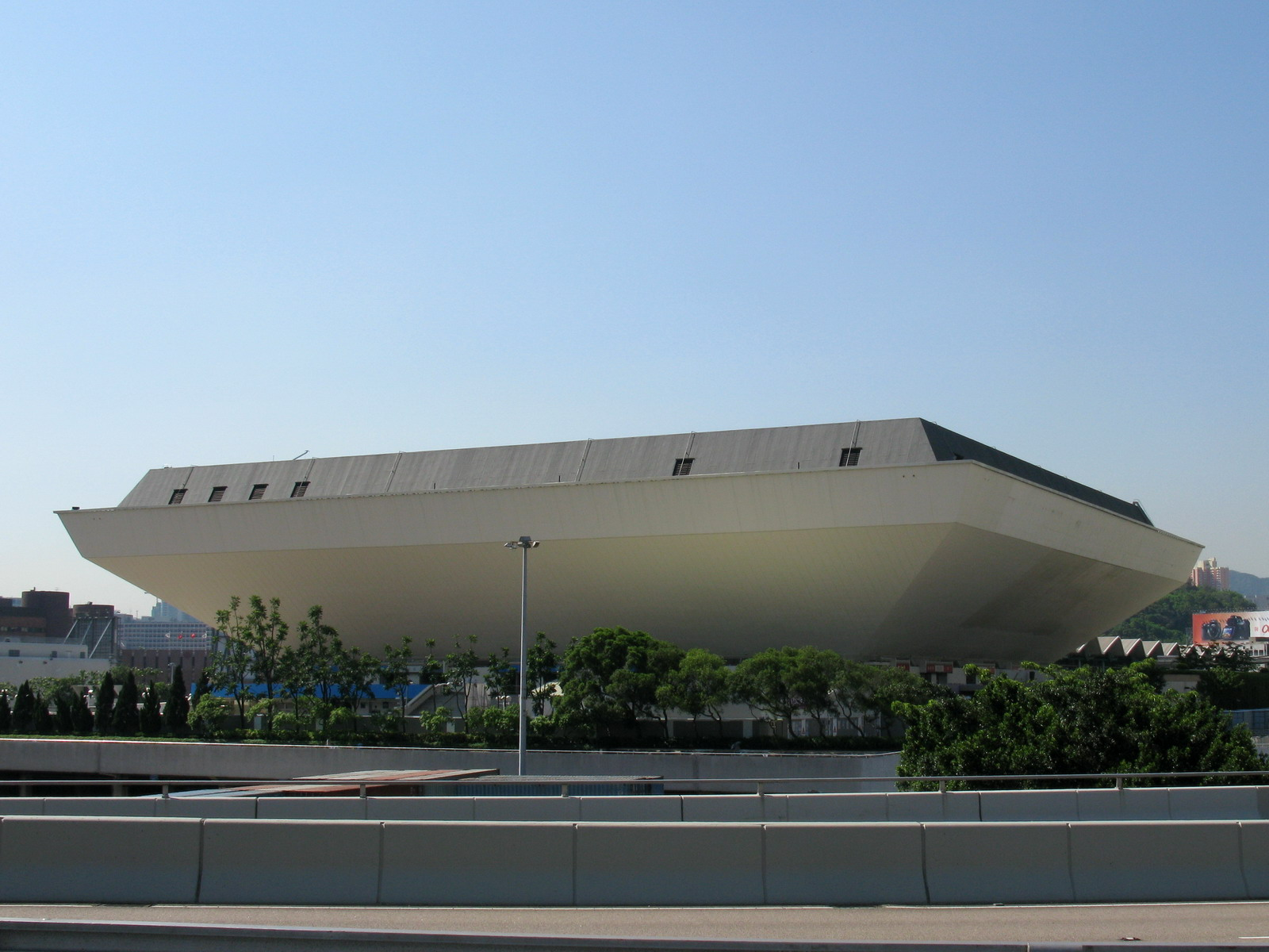 Hong Kong Coliseum Bân-lâm-gú: Âng-kham thé-io̍k-tiûnn / Hiong-káng Thé-io̍k-tiûnn